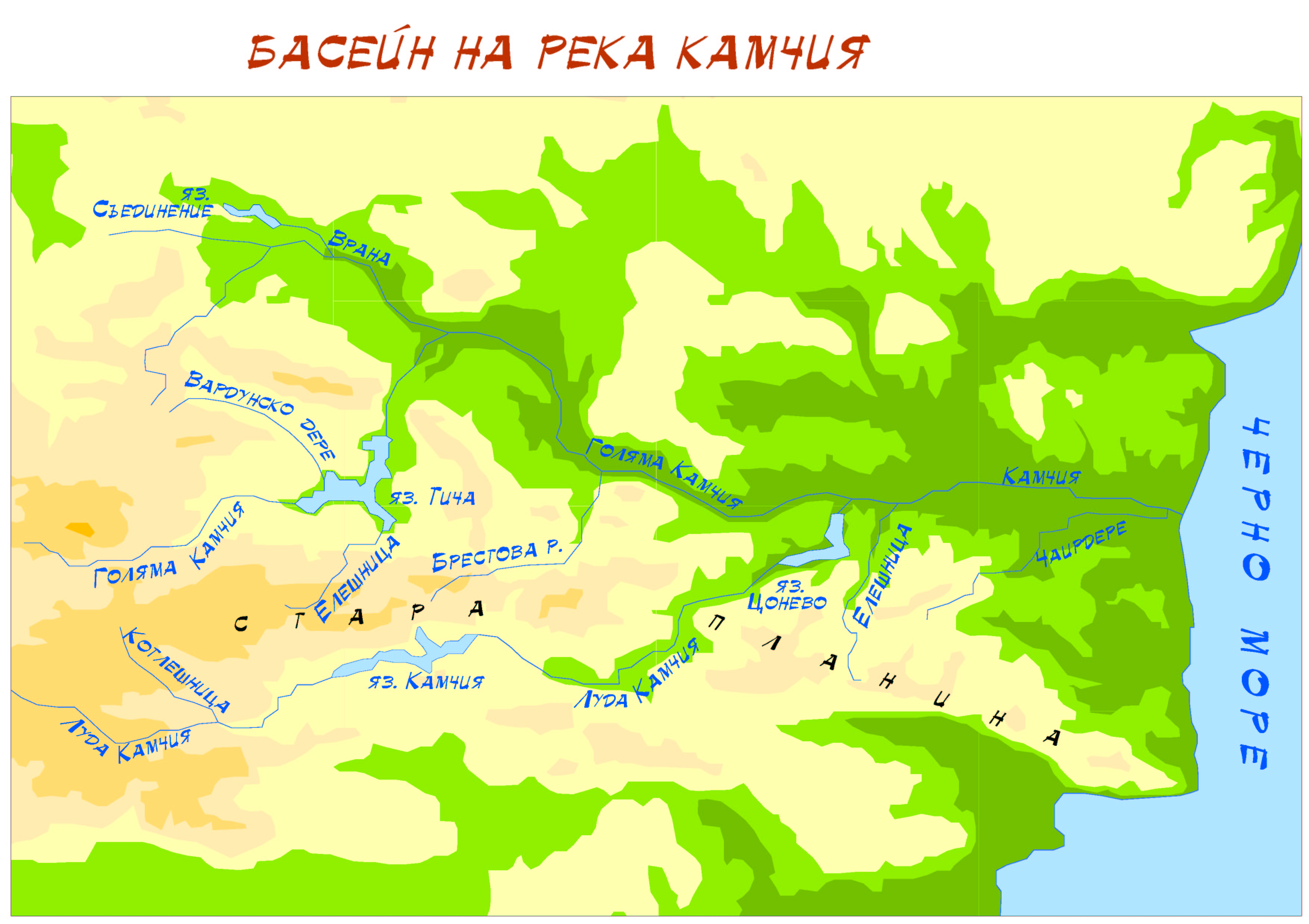 Map of the Bassin of river Kamchia in Bulgaria